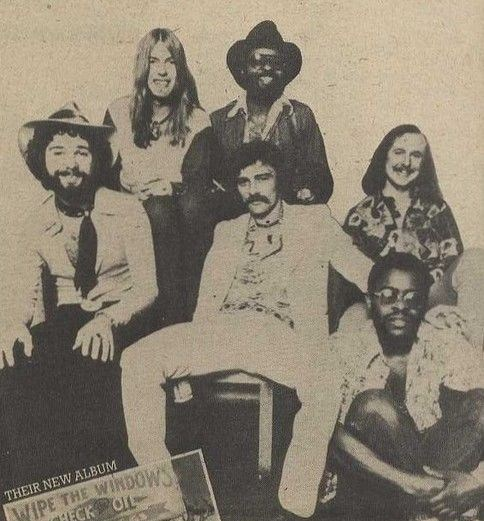 Trade ad for The Allman Brothers Band's live album Wipe the Windows, Check the Oil, Dollar Gas (1976). To better adapt it to his respective Wikipedia article, the ad was cropped and cleaned in a graphics editing program. The original can be viewed at the source below.